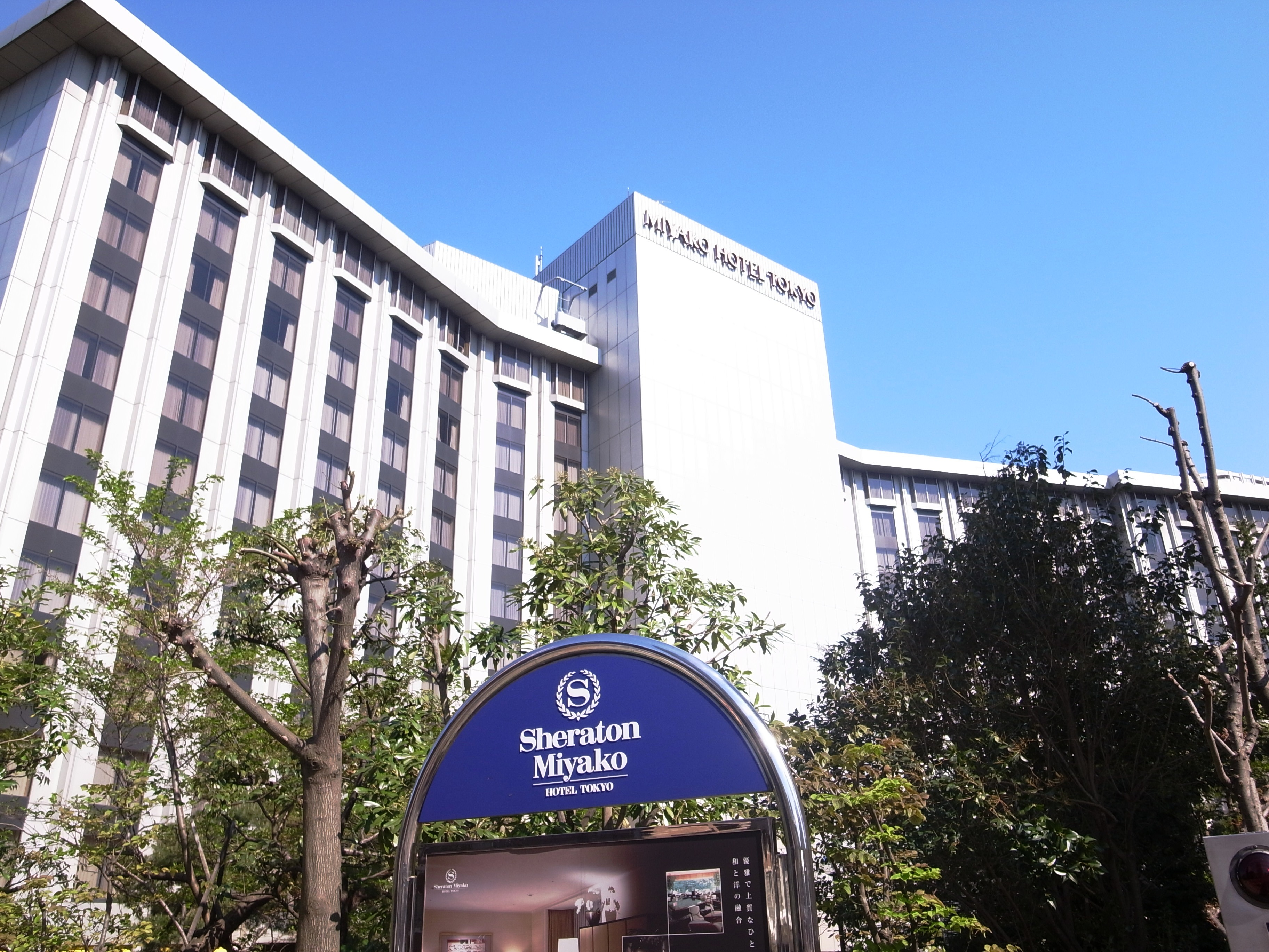 Sheraton Miyako Hotel Tokyo